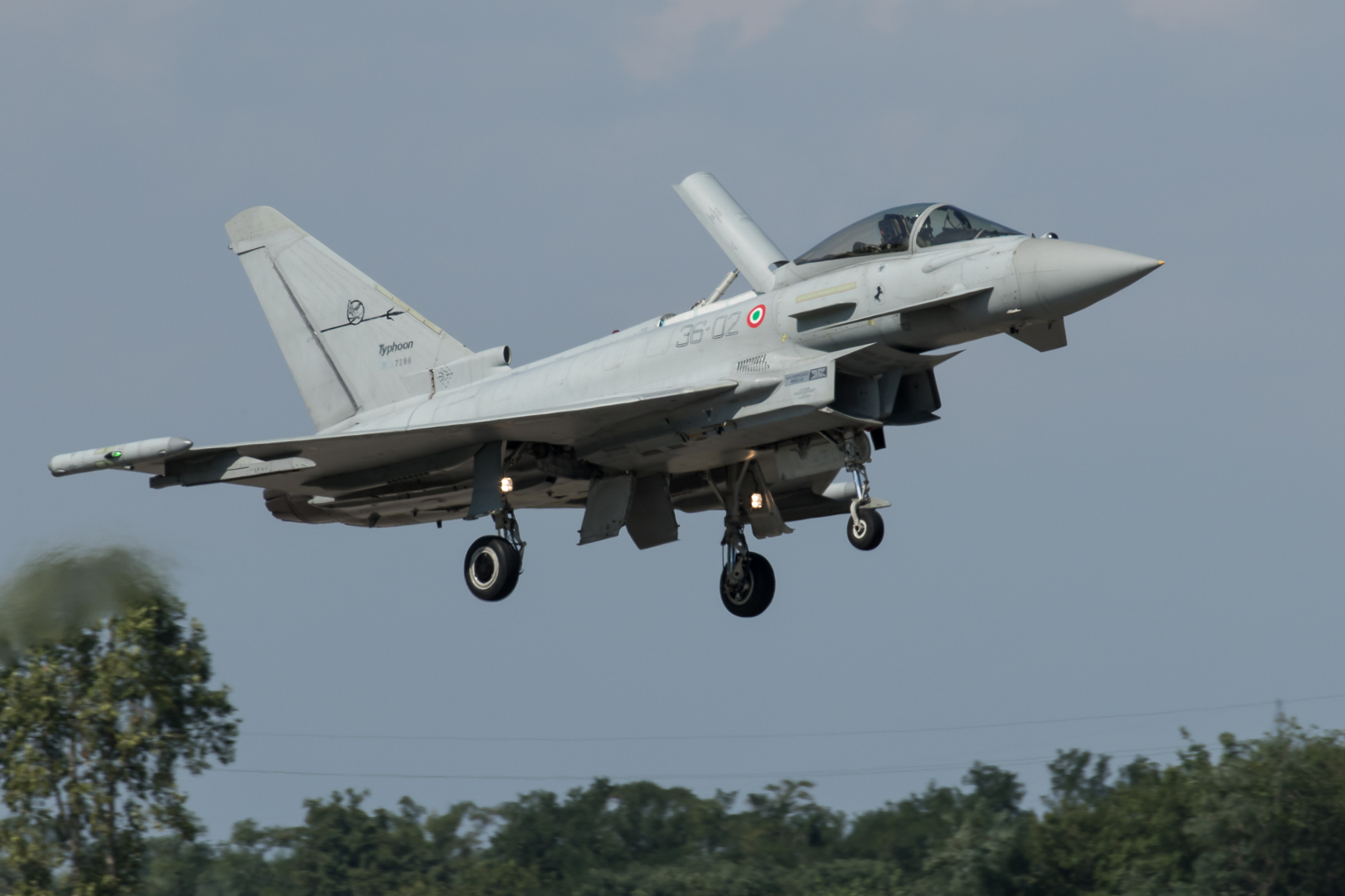 Eurofighter EF-2000 Typhoon S MM7286 / 36-02 (cn IS018) Landing @ LIPI with aerobrake displaced